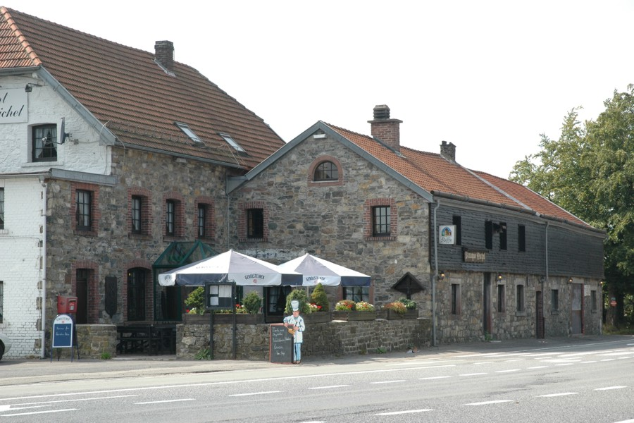 The well-known hostel Baraque Michel in Jalhay, Belgium. Being situated in the High Fens it marks the second highest point of Belgium with 674 m (2,211 ft), right after the Signal de Botrange, about 2 miles to the southeast.